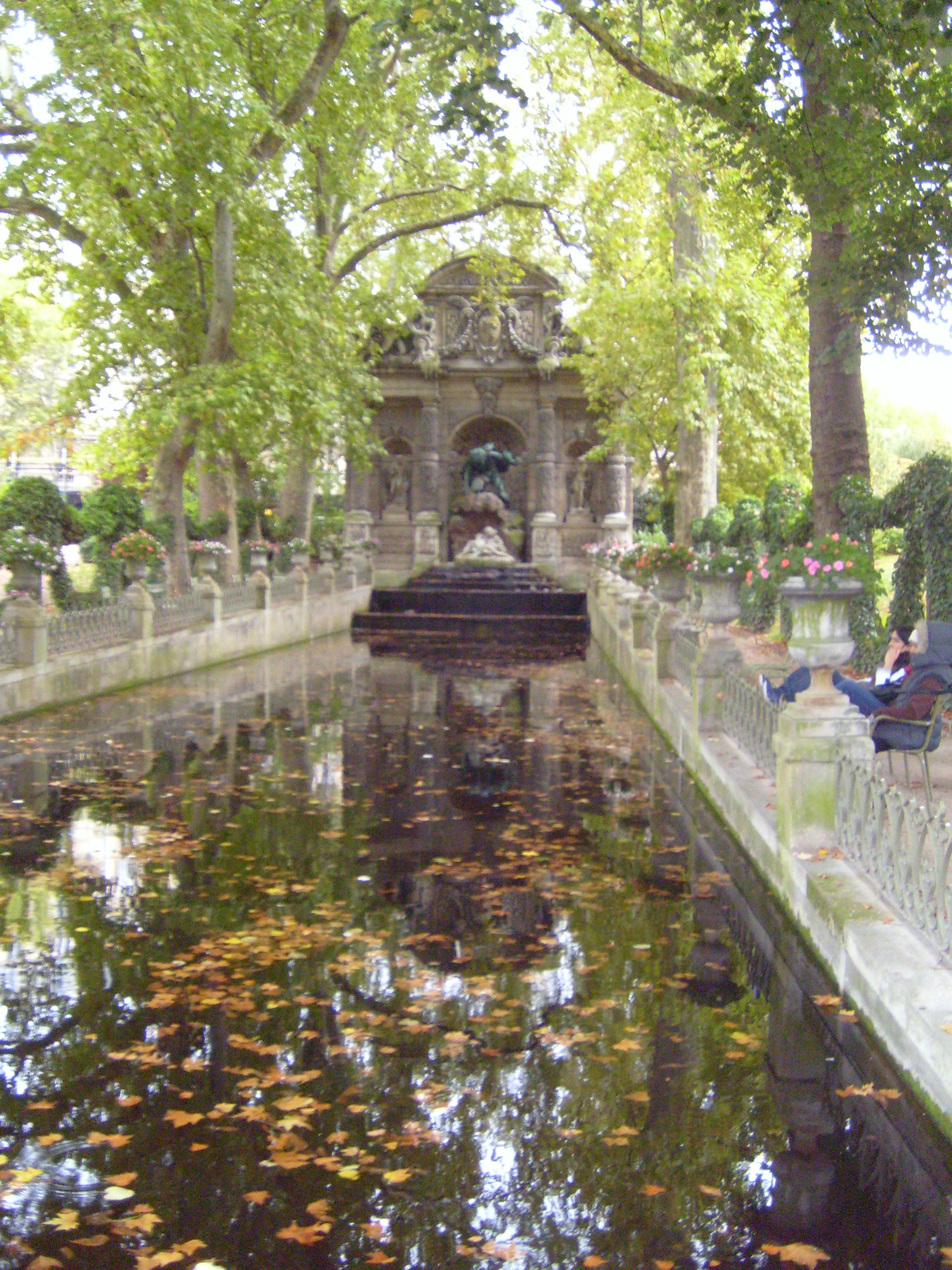 Medici Fountain, Luxembourg Gardens, in Autumn